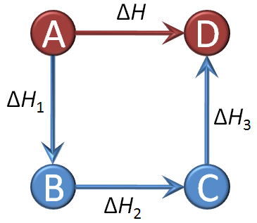 Graphical reprensentation of Hess' Law (thermochemistry)